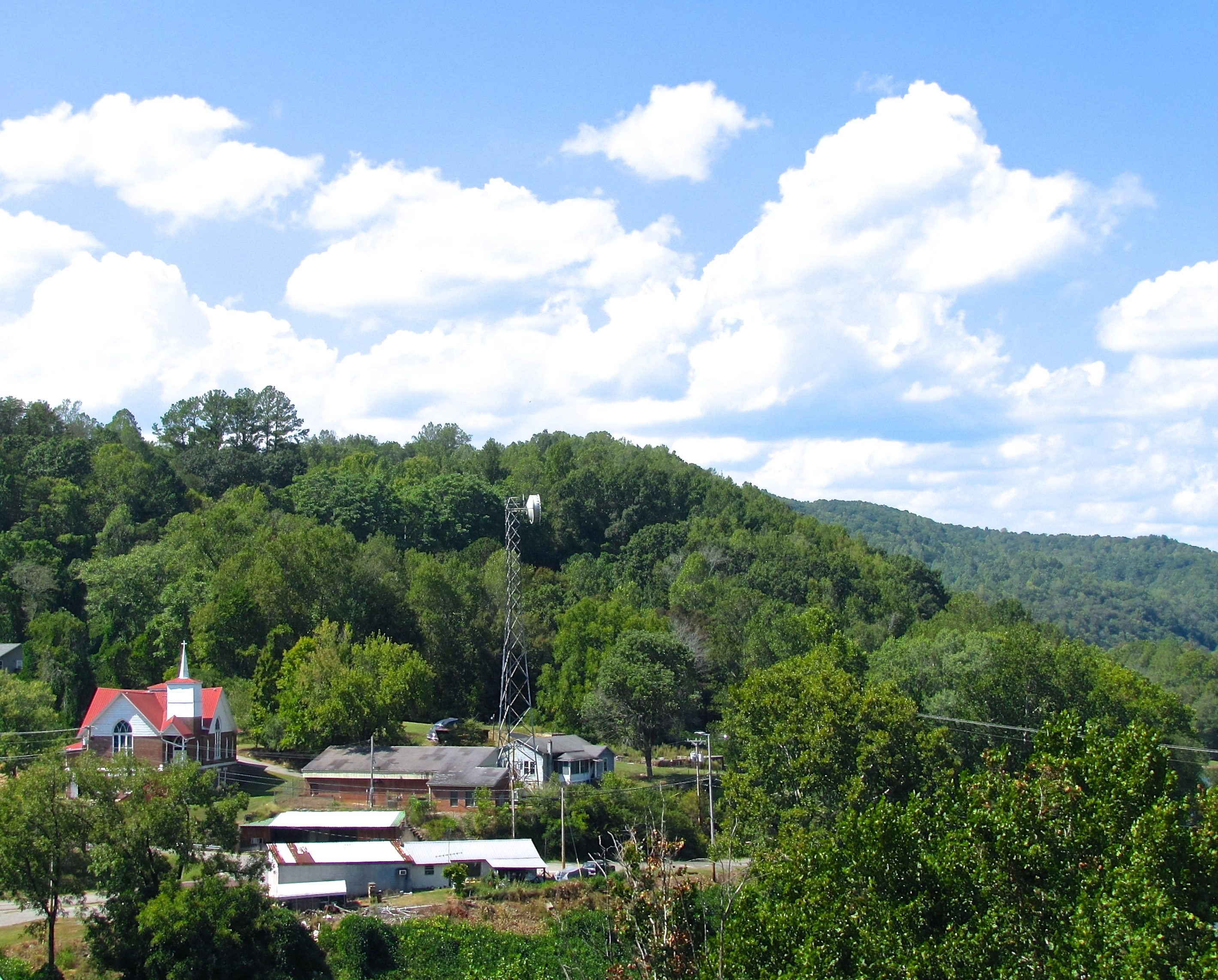 The view looking northwest from the SR 299 bridge in Oakdale, Tennessee, United States.